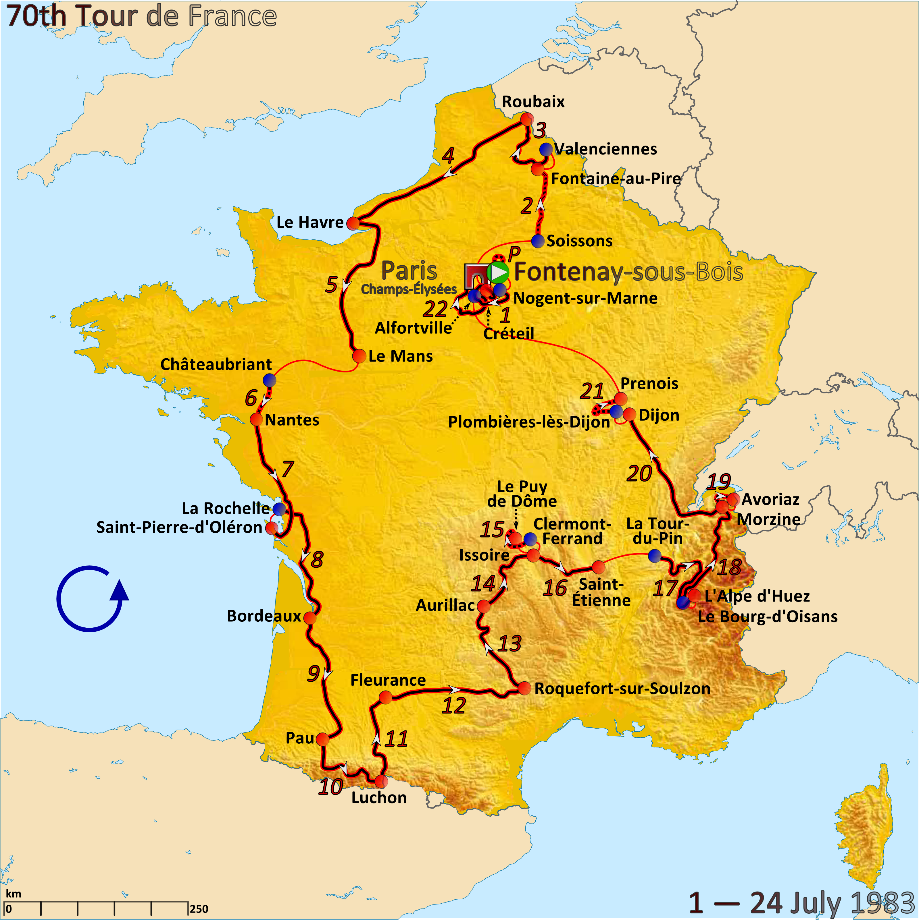 Map of the 1983 Tour de France created in Inkscape using accurate stage maps from touratlas.nl.